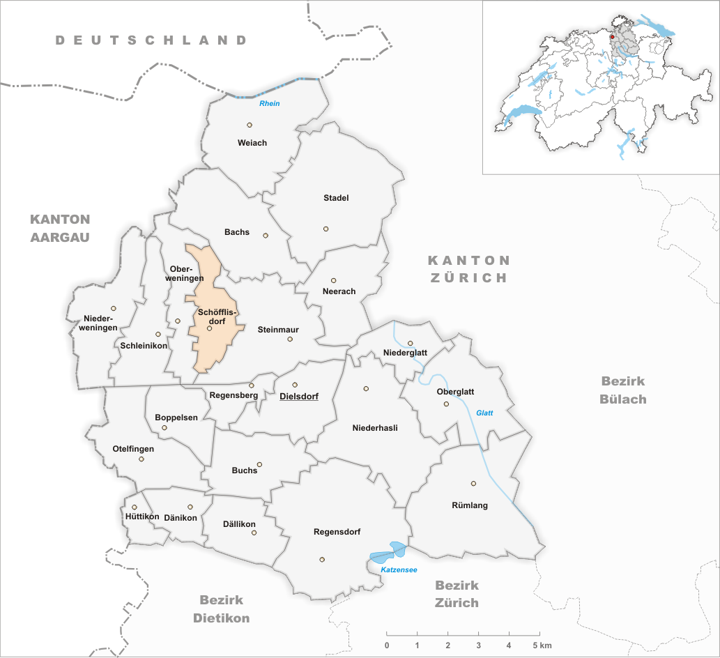 Municipality Schöfflisdorf